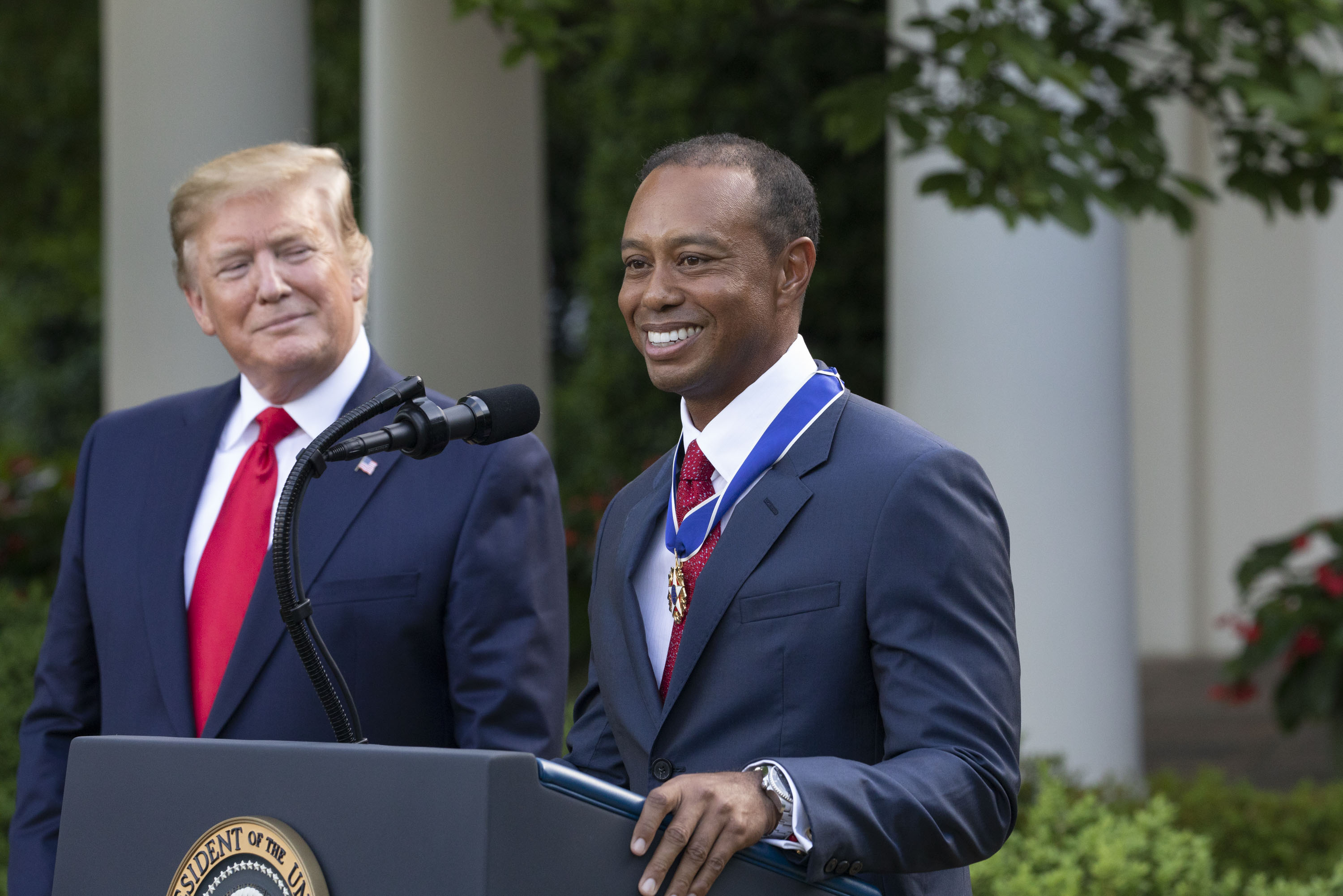 President Donald J. Trump listens as Tiger Woods addresses his remarks Monday, May 6, 2019, in the Rose Garden of the White House after being presented with the Presidential Medal of Freedom. (Official White House Photo by Joyce N. Boghosian)